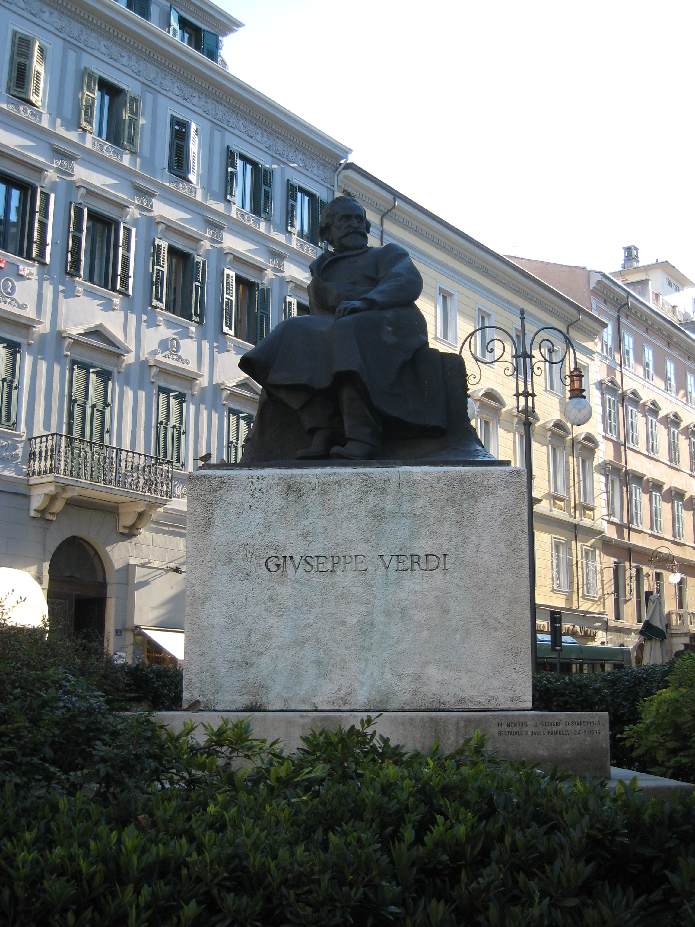 Italy - Trieste - Verdi monument. Work by Alessandro Laforet (d. 1937).